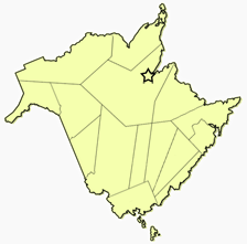 A map of New Brunswick, Canada which shows the location of Miramichi.